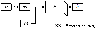 Steganography: the First Protection Level Security Scheme